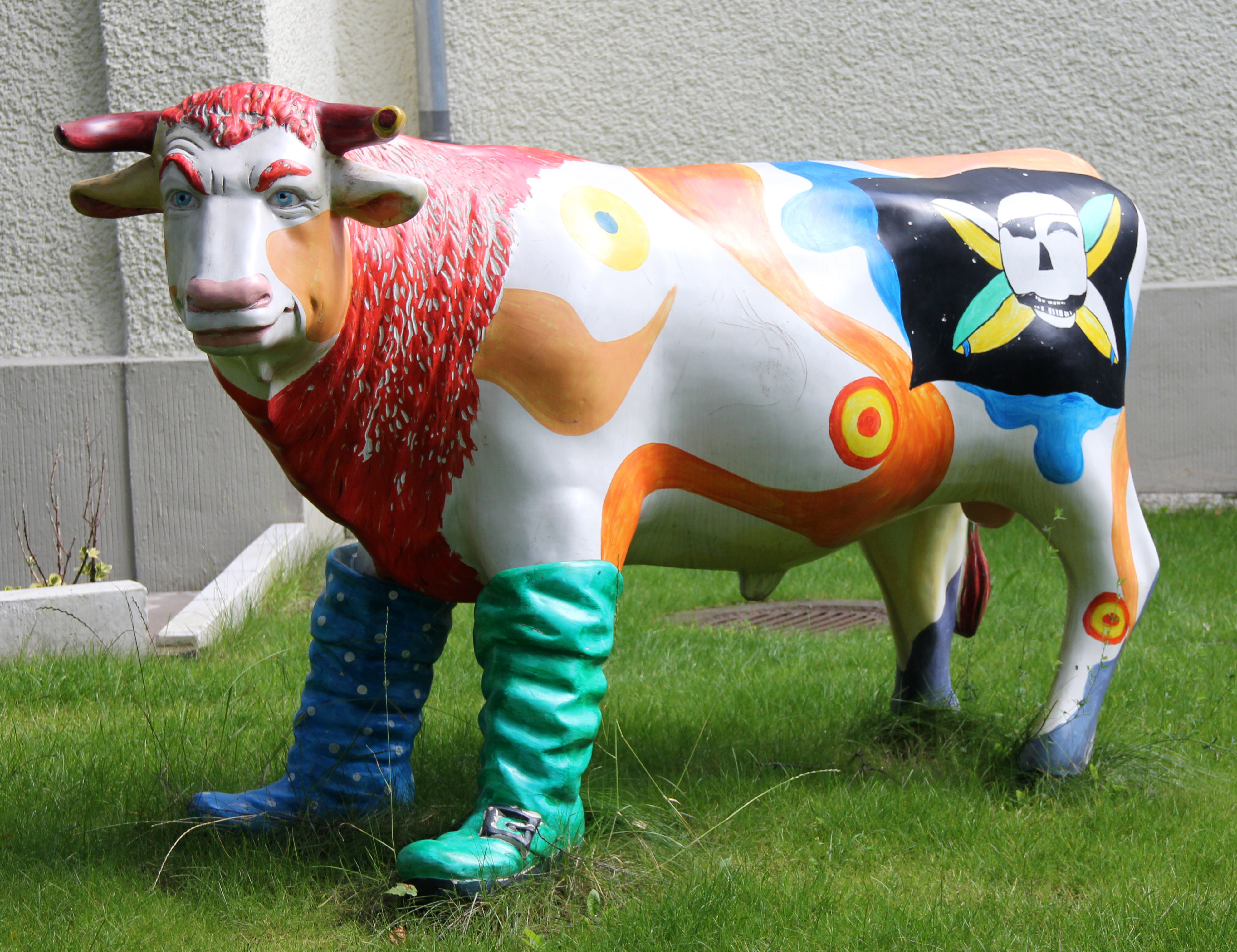 Sculpture, Heinz der Stier, Schmidt-Ott-Straße 4, Berlin-Steglitz, Germany